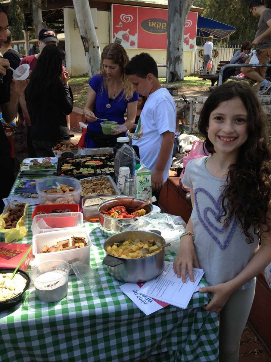 Meatout vegan stall, Israel 2014